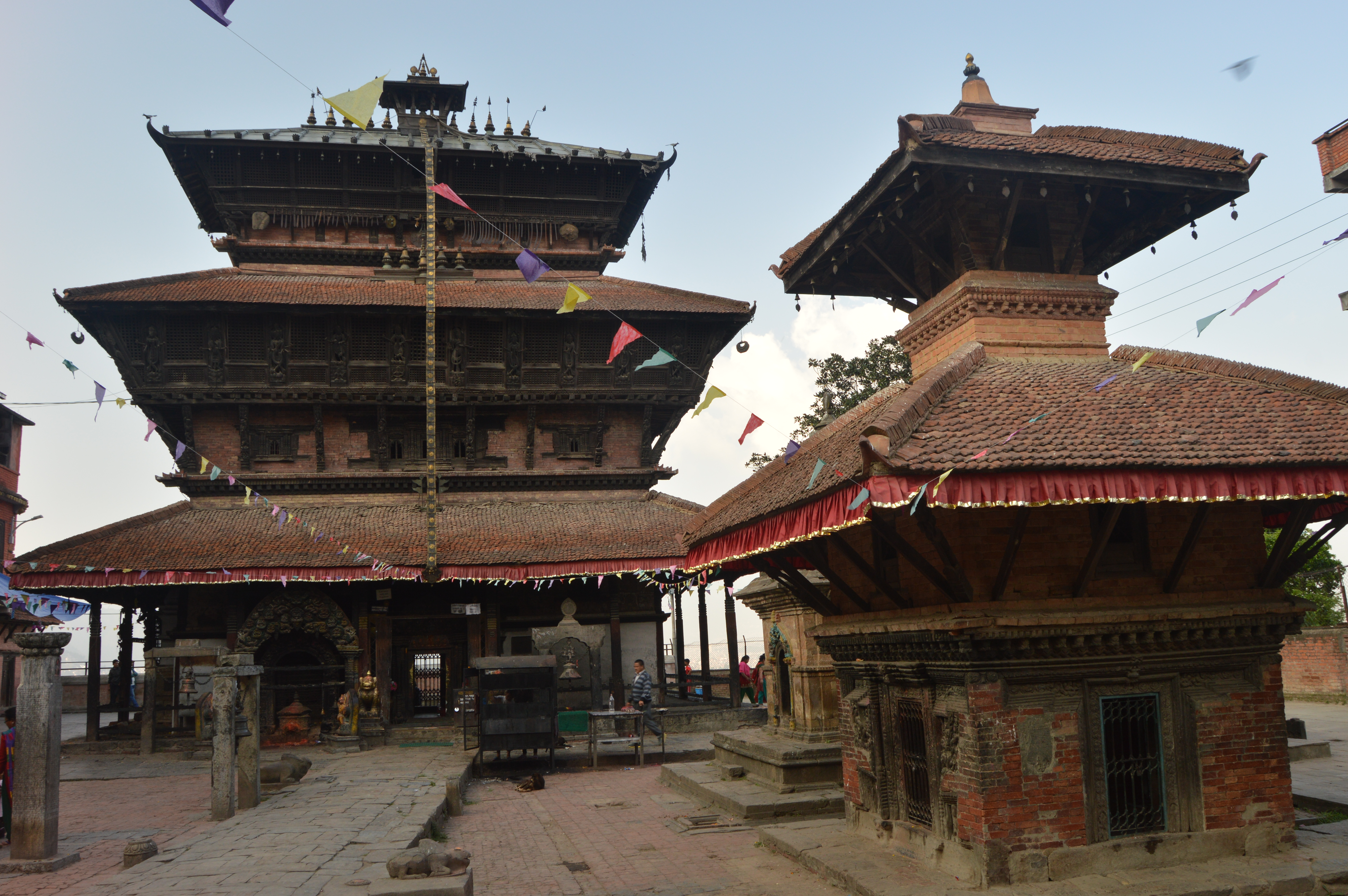 Bagh Bhairab Temple at Kritipur Kathmandu.